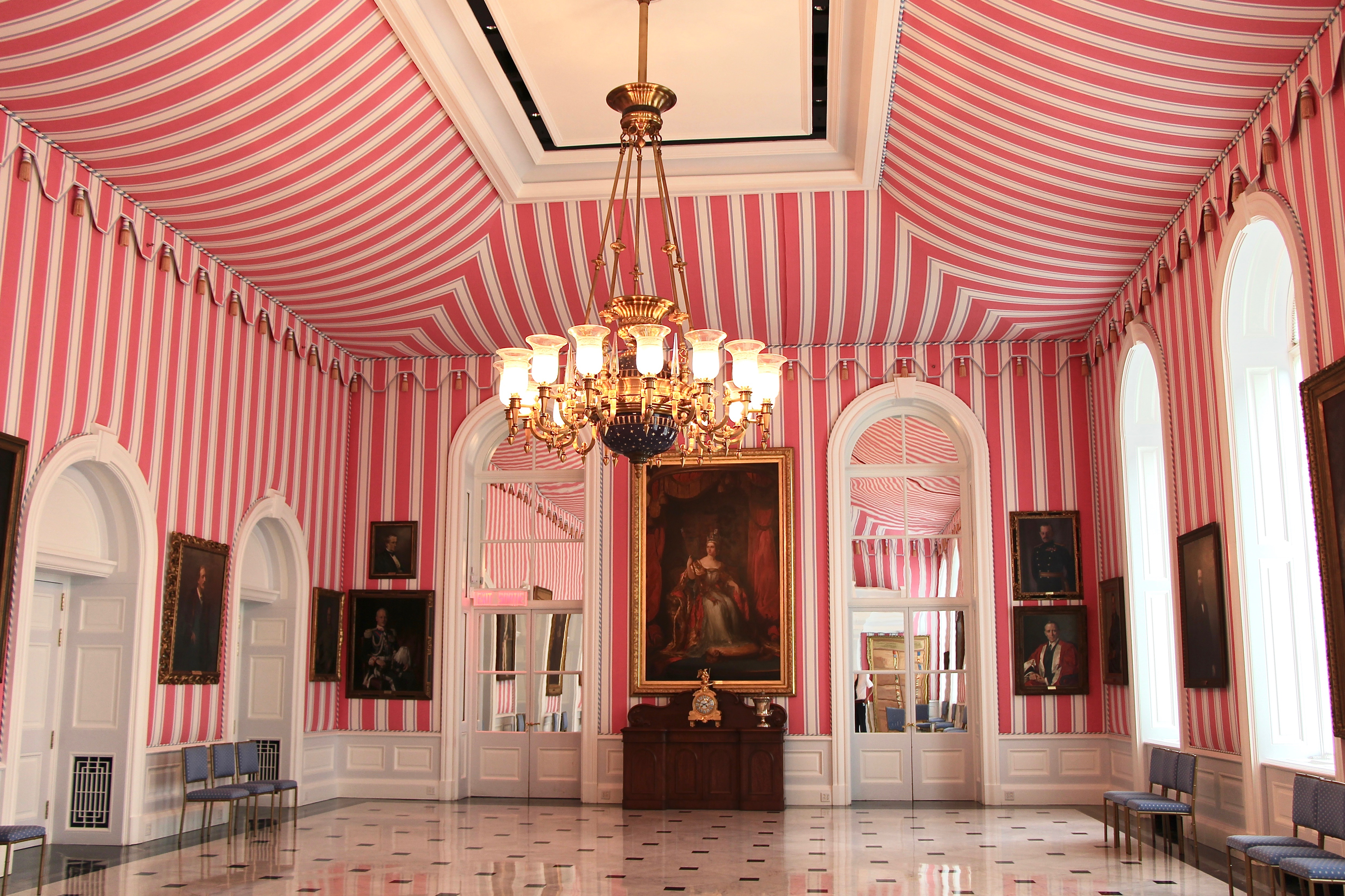 Tent Room, Rideau Hall, 1 Sussex Drive, Ottawa, ON K1A 0A1.